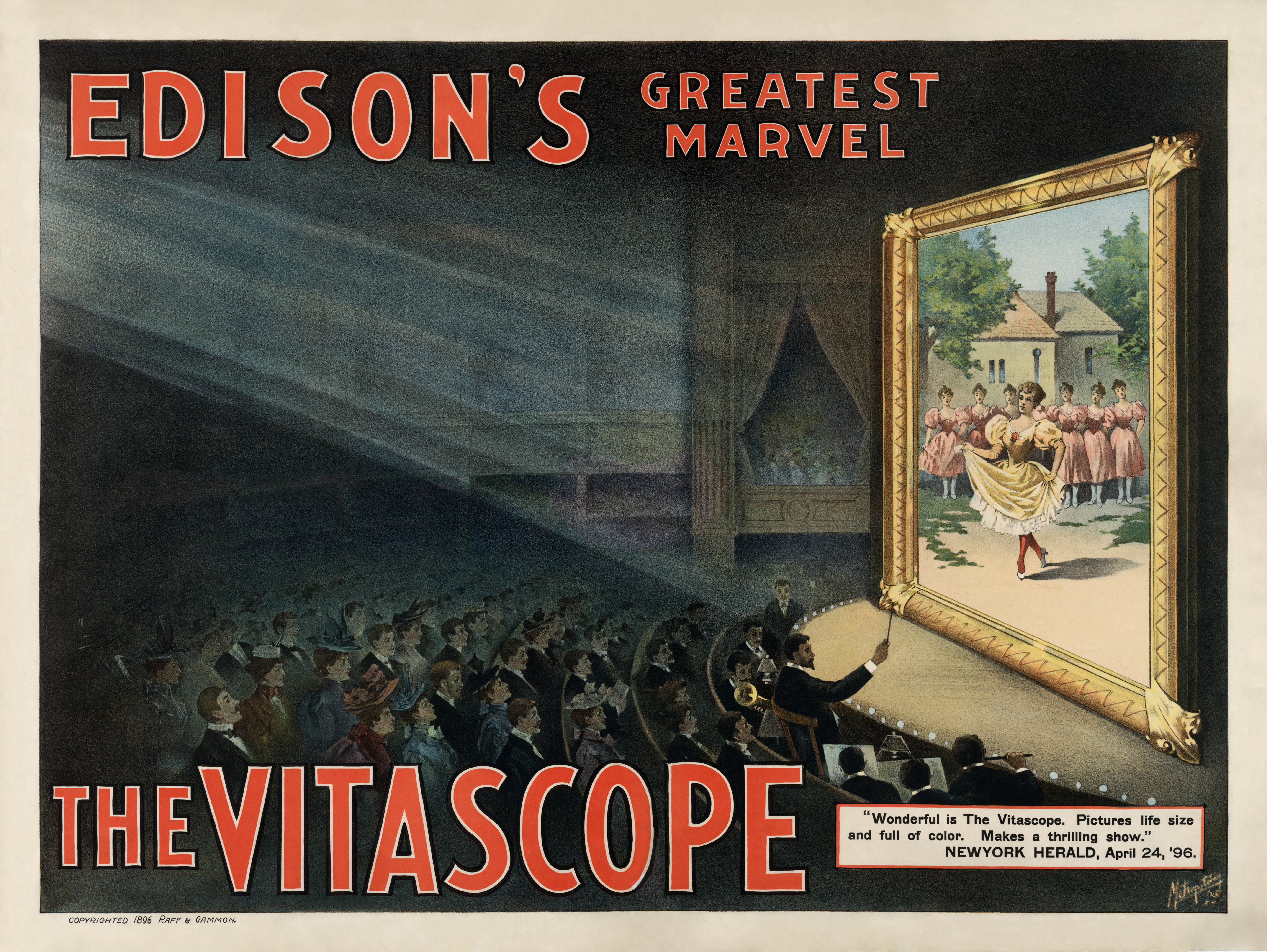 Edison's Greatest Marvel--The Vitascopelabel QS:Len,"Edison's Greatest Marvel--The Vitascope" Poster for The Vitascope showing a movie audience, watching a large screen with women dancing on it. A small orchestra plays in front of the screen. The theatre has a box which several more people have packed into. The Library of Congress places the scene in New York, this, combined with the date, would make this the April 23, 1896 reveal of the technology at Koster and Bial's Music Hall in New York City. Lithographic colour poster, Height: 97 cm (38.1 ″); Width: 73 cm (28.7 ″) dimensions QS:P2048,97U174728;P2049,73U174728 29057B U.S. Copyright Office